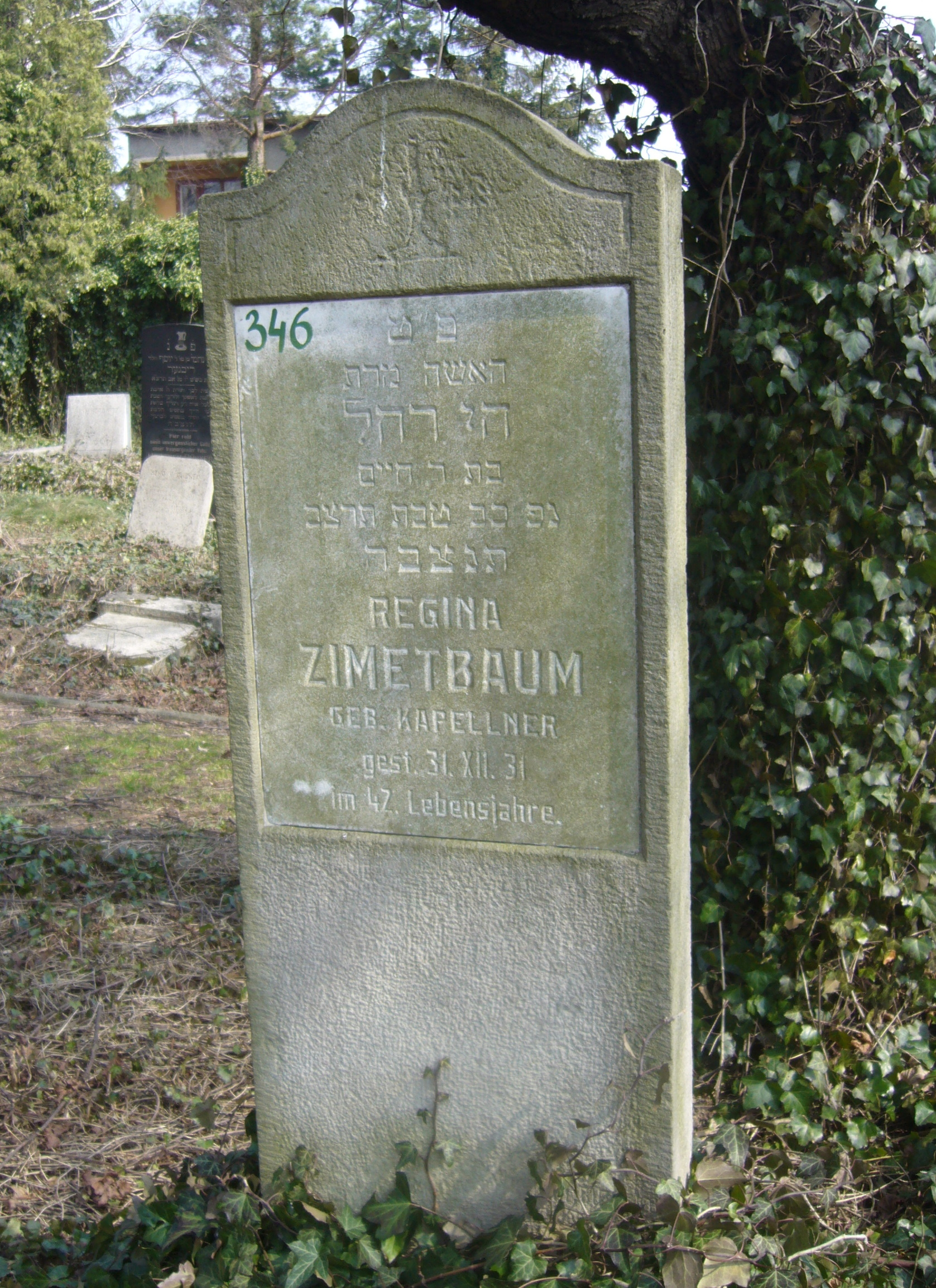 Regina Zimetbaum grave on jewish cemetery in Bielsko-Biała.